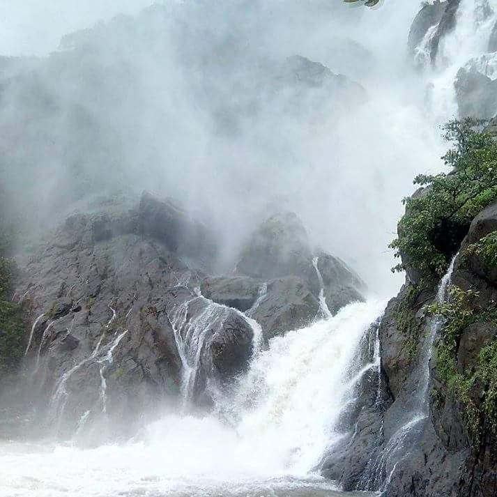 Dudhsagar waterfall in kullem Goa